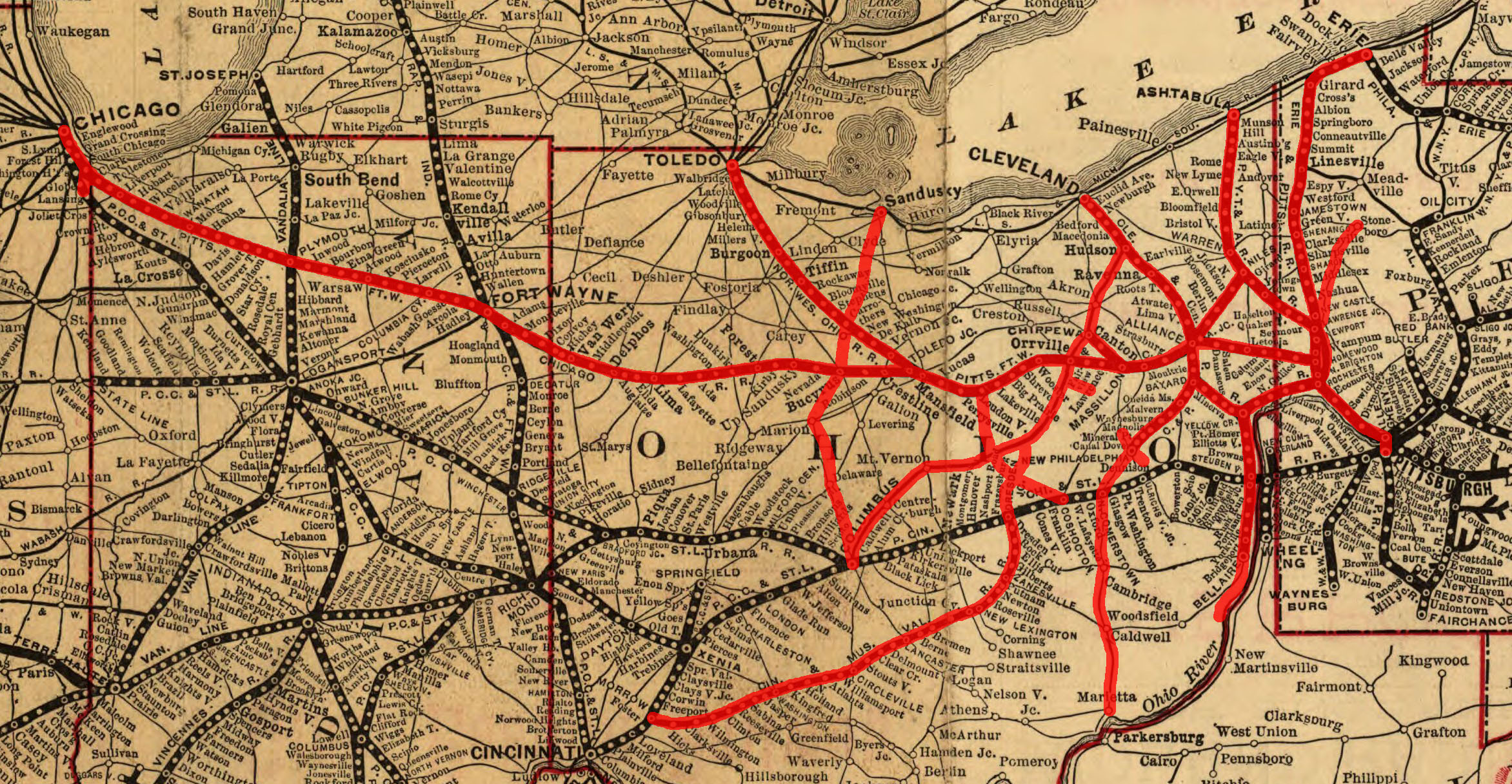 The lines operated by the Pennsylvania Company just before its demise in 1918